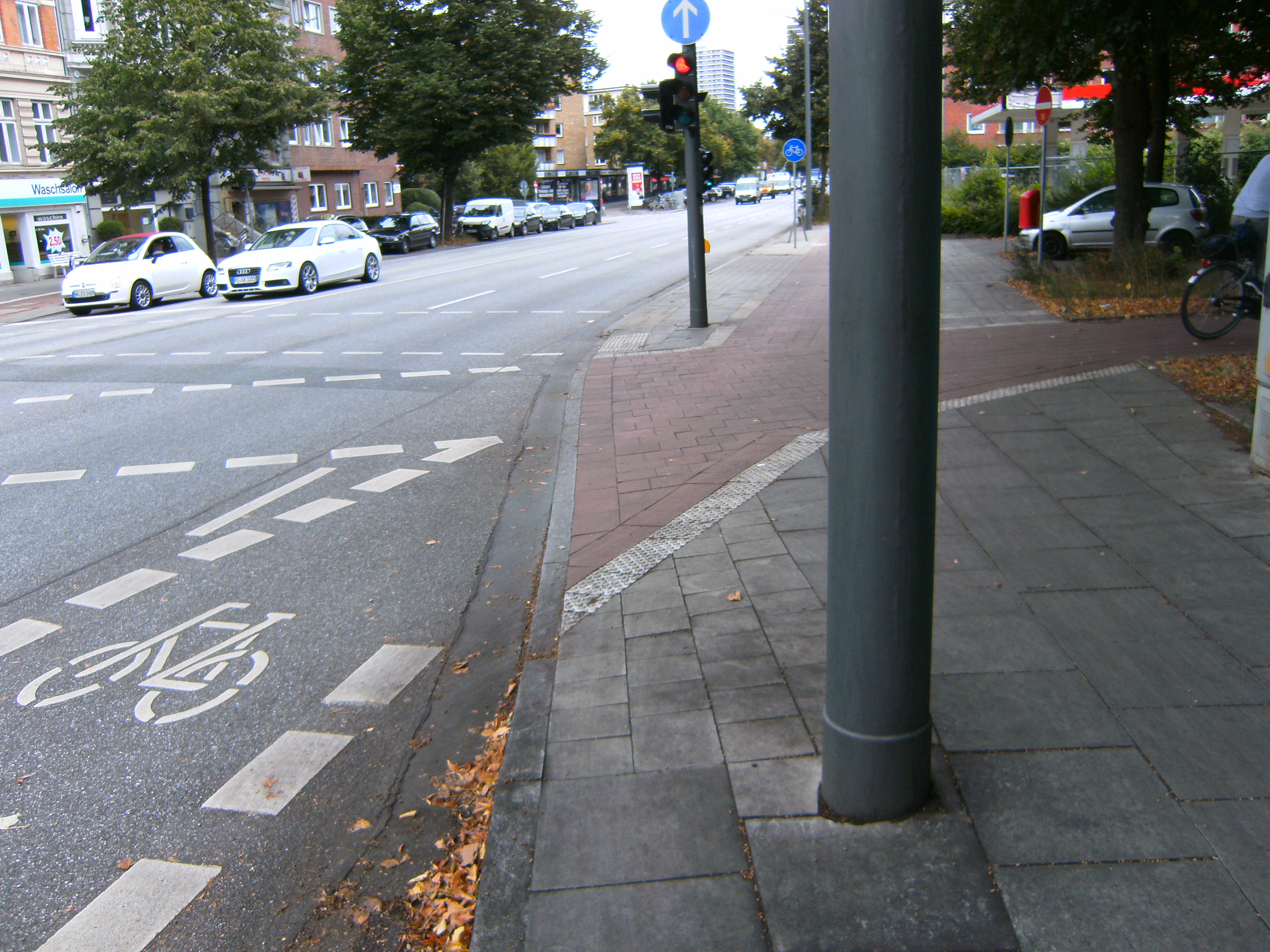 Veloroute 5 (Hamburg) leading out of town. Mundsburger Damm/Ecke Hartwicusstraße. Bifurcation to Veloroute 6 (Hamburg).